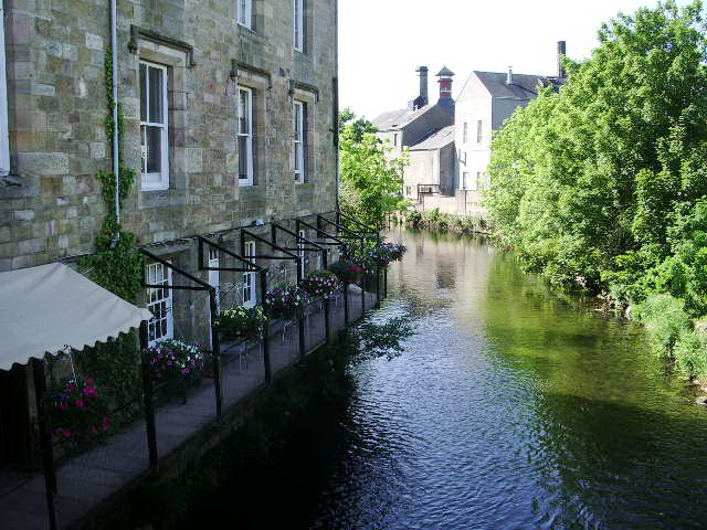 River Cocker Note the walkway attached to the building on the left